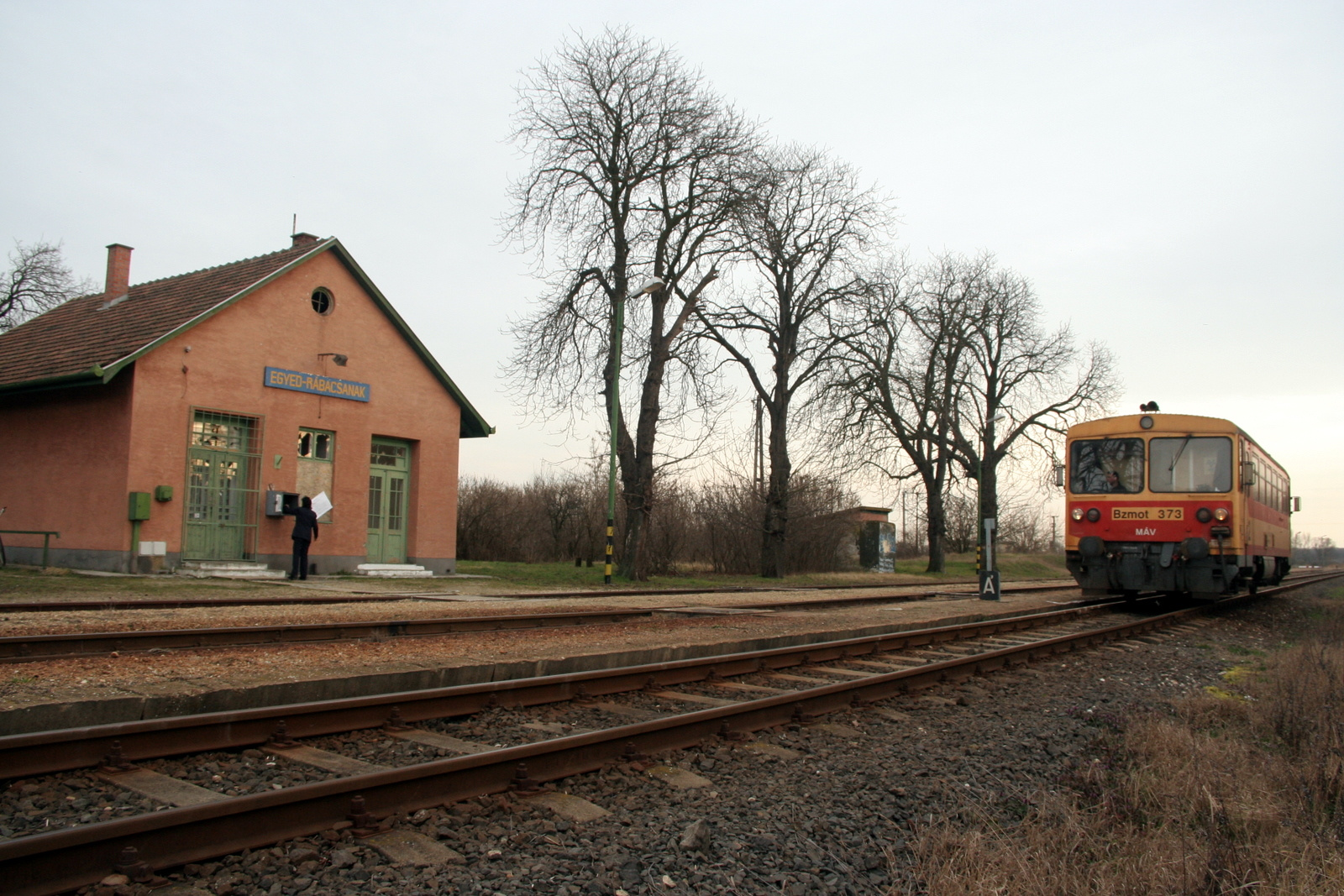 Egyed-Rábacsanak railway station, Hungary